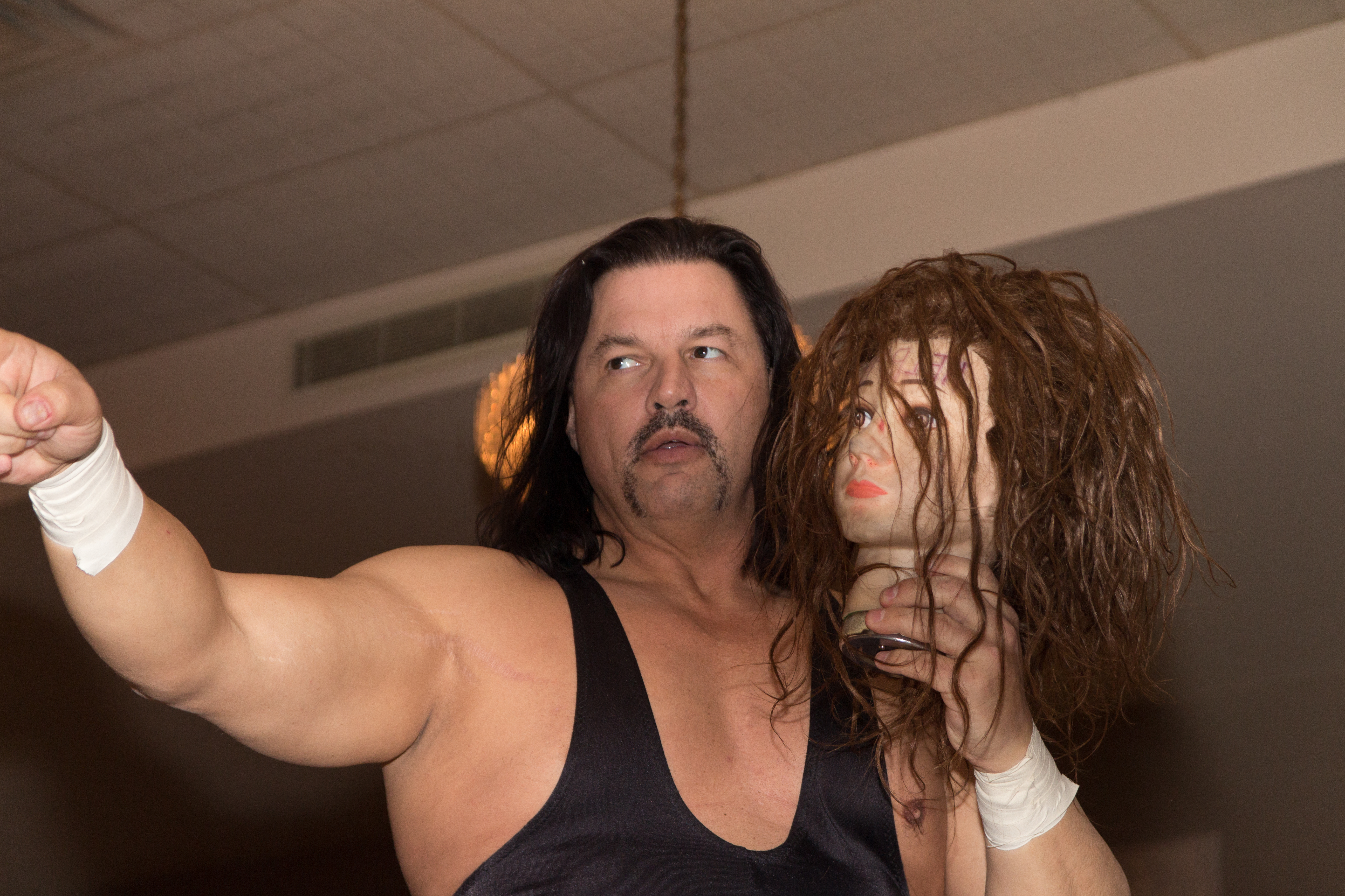 Al Snow with Head at the Hardcore Roadtrip show in London, ON